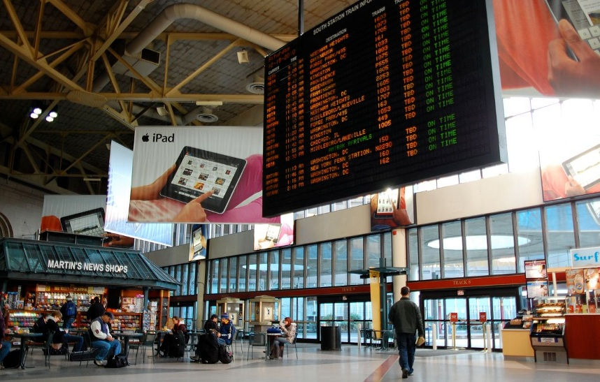 Inside the rail terminal at South Station, Boston, Massachusetts. Tracks are accessed through glass doors as marked.